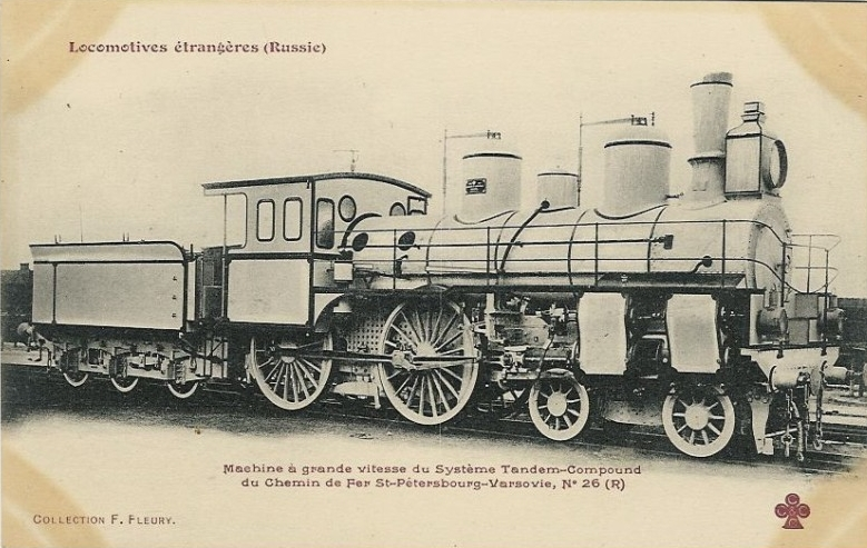 Russian steam locomotive Пп series, 2-2-0 class, 1897-1900